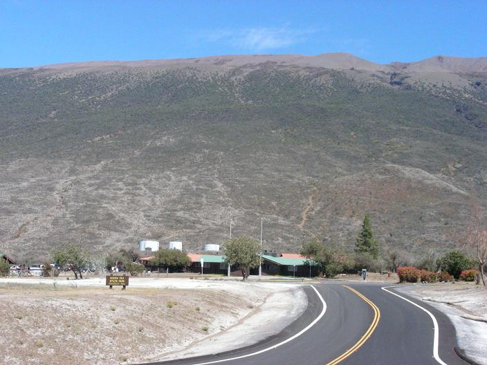 Mauna Kea State Park, Hawaii. Entrance to the park with Mauna Kea in the background.